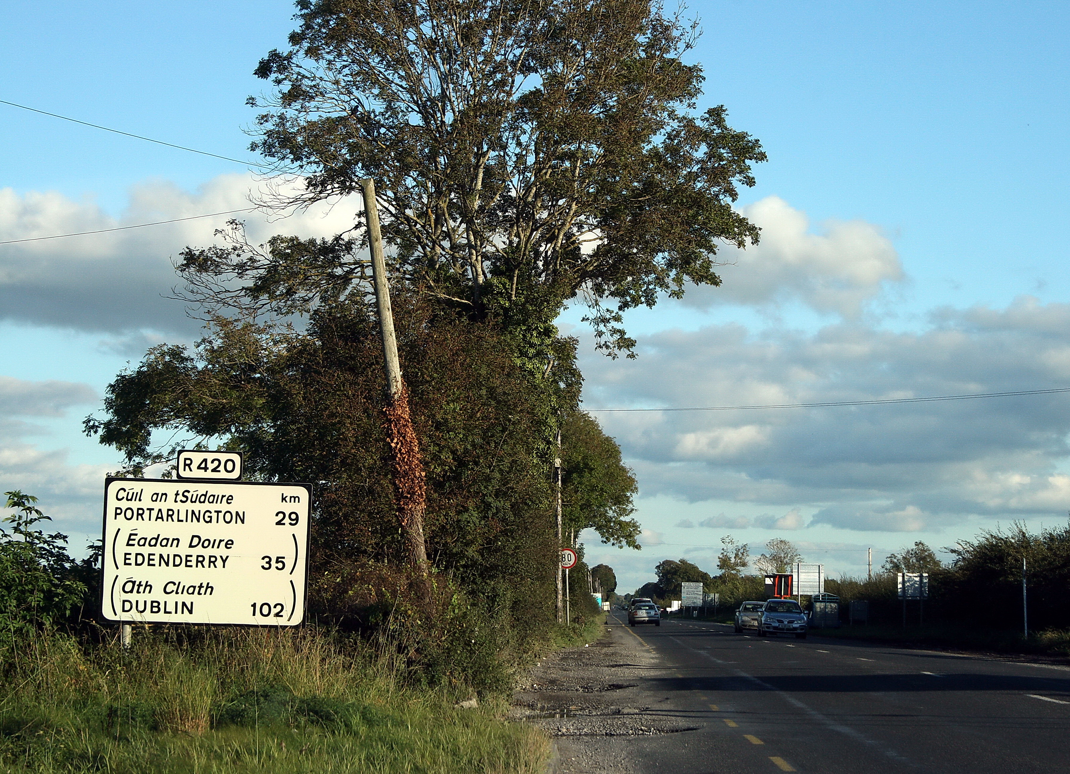 Tullamore, County Offaly, near to Tulach Mhor and Capppancur, Offaly, Ireland. Leaving Tullamore on the R420.